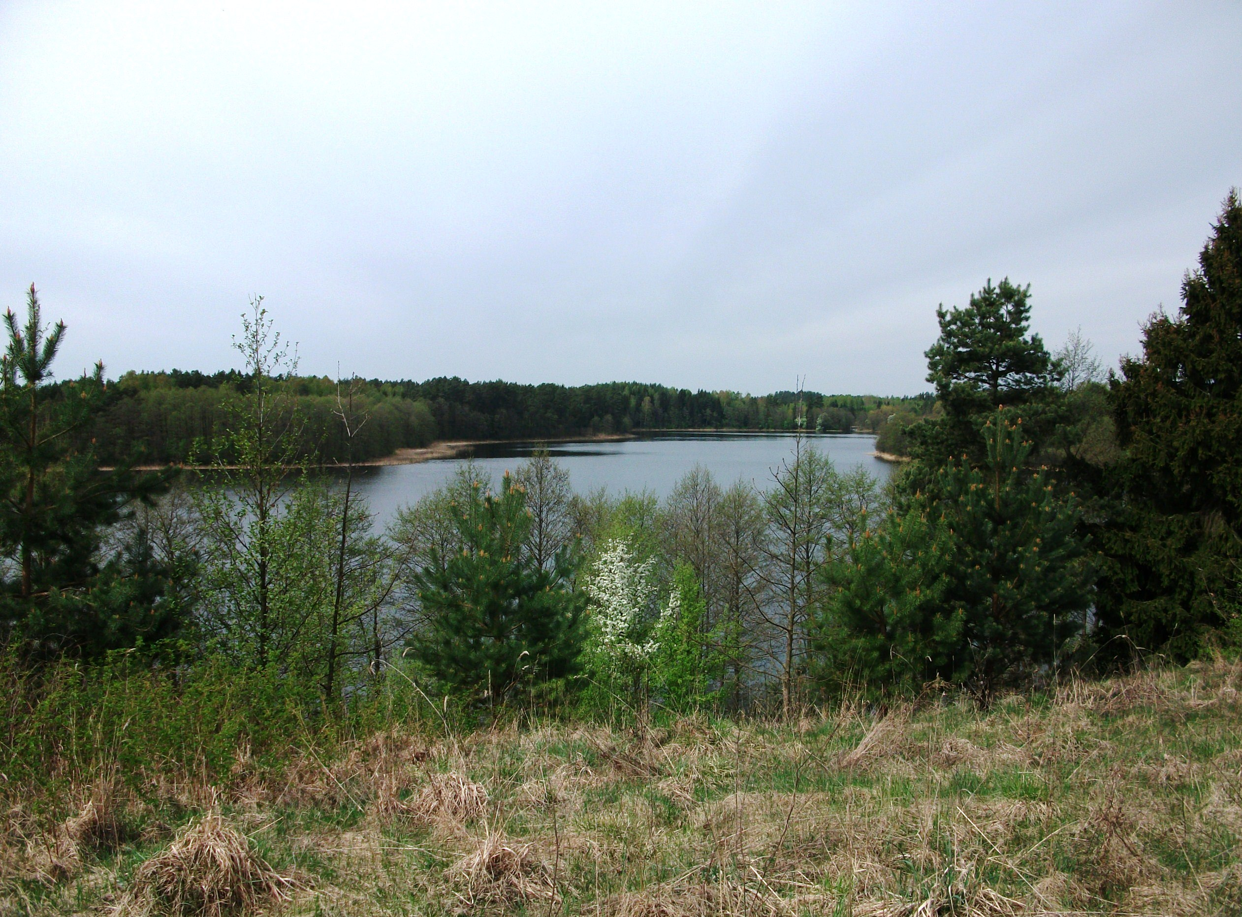 Kaymin Lake, Astraviec district, Belarus